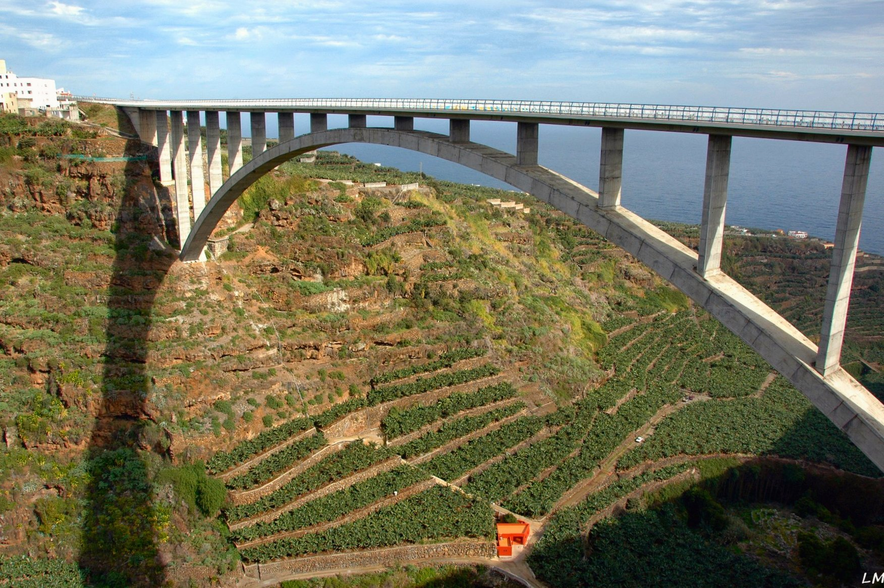 Los Tilos Bridge, San Andrés y Sauces, La Palma, Canary Islands, Spain